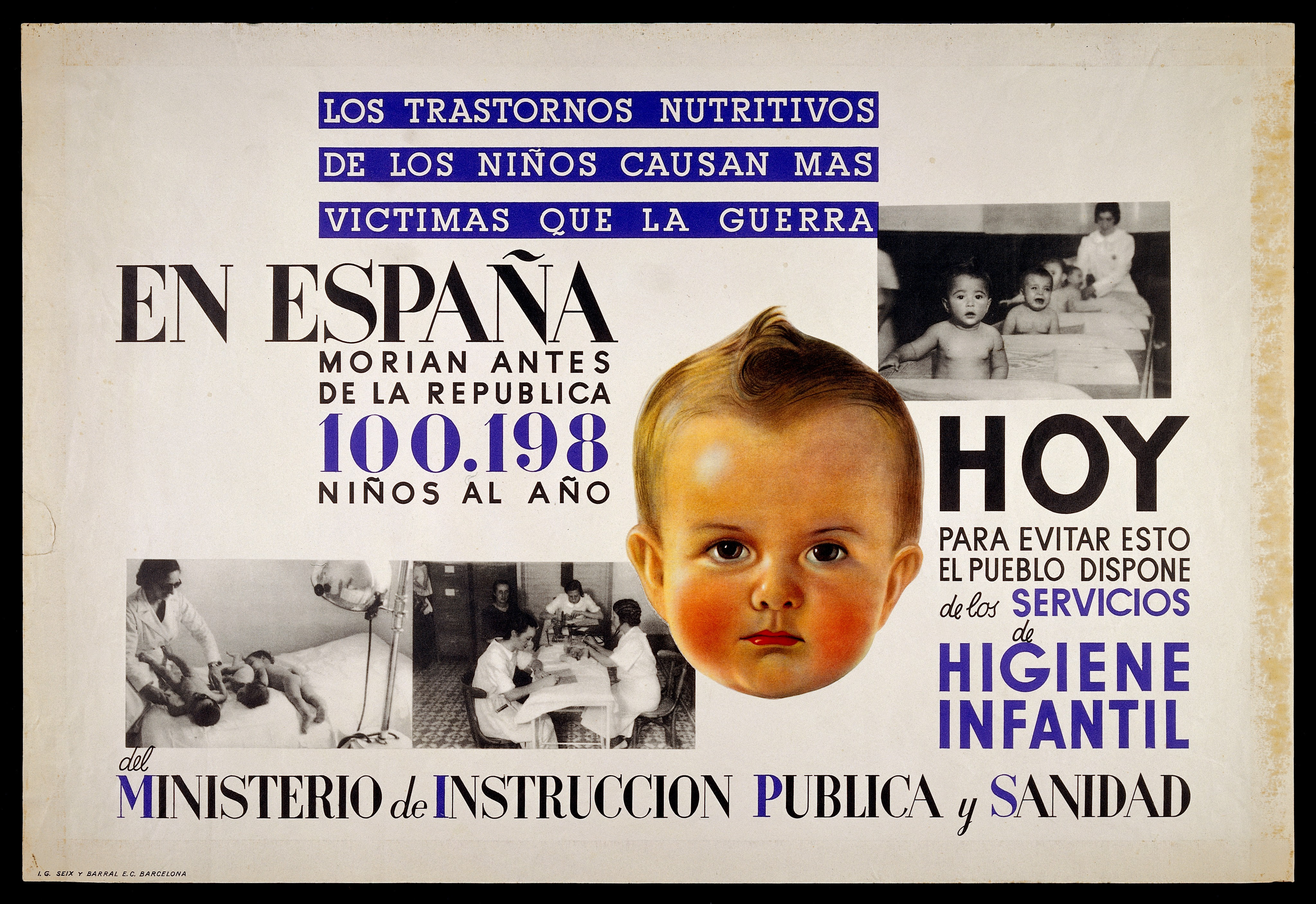 Infant nutrition: healthy babies, advertising the advice services available from the Spanish Republican government to reduce infant mortality due to poor nutritition. Iconographic Collections Keywords: Infants; Nutrition; Infant; Spain